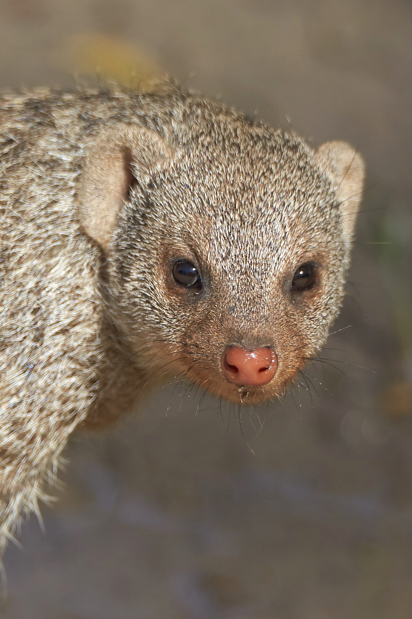 Nose colors of banded mongoose vary from gray-brown to orange-red.